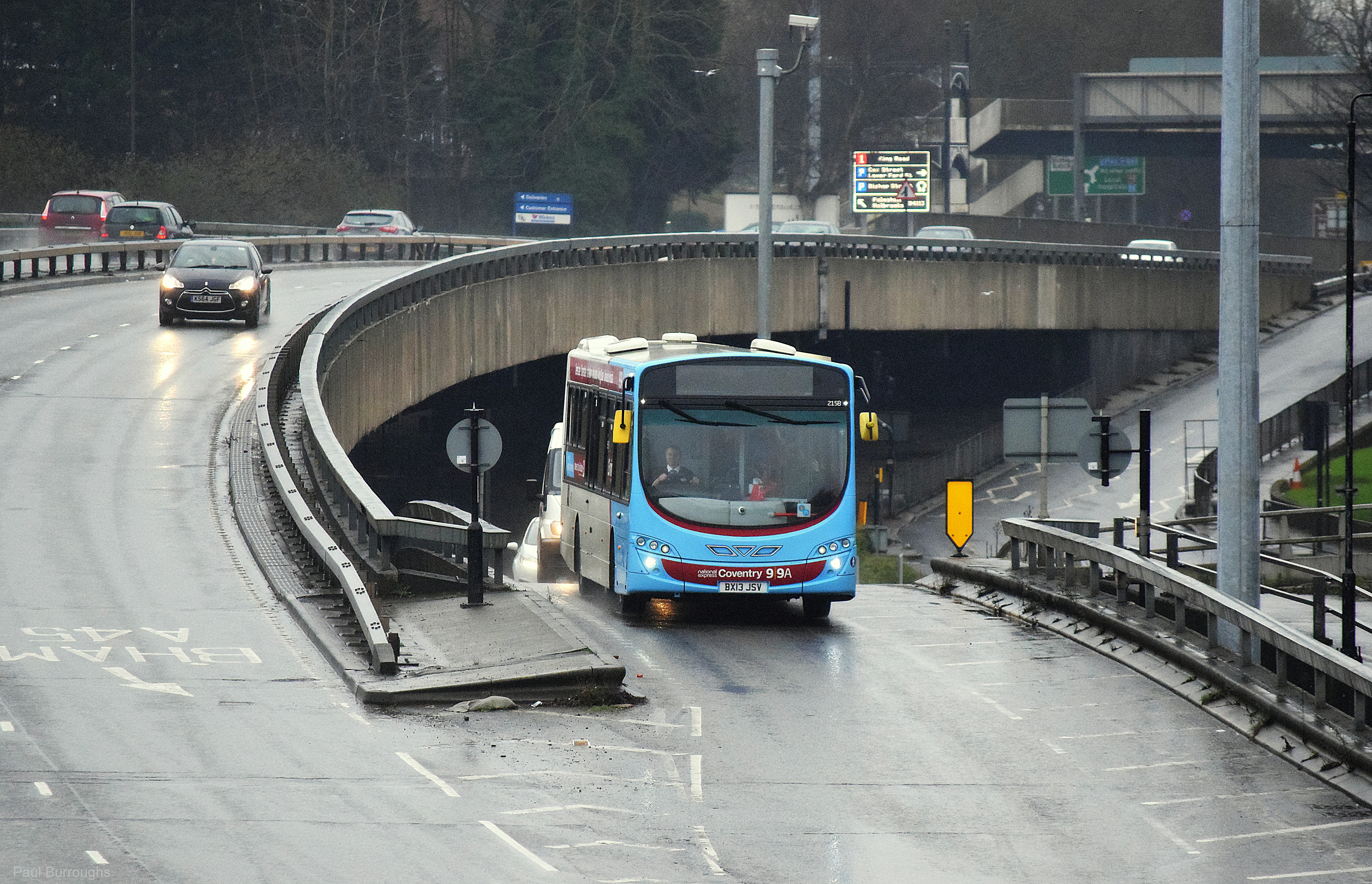 Coventry ring road Hillcross flyover